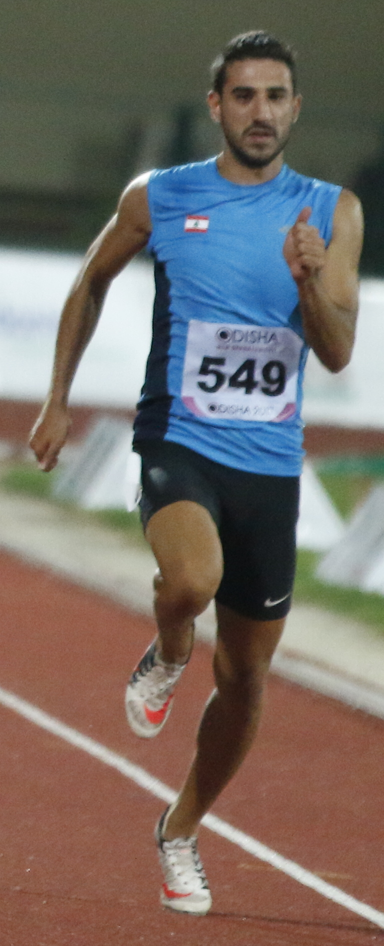 Athletes during 22nd Asian Athletics Championships in Bhubaneswar.